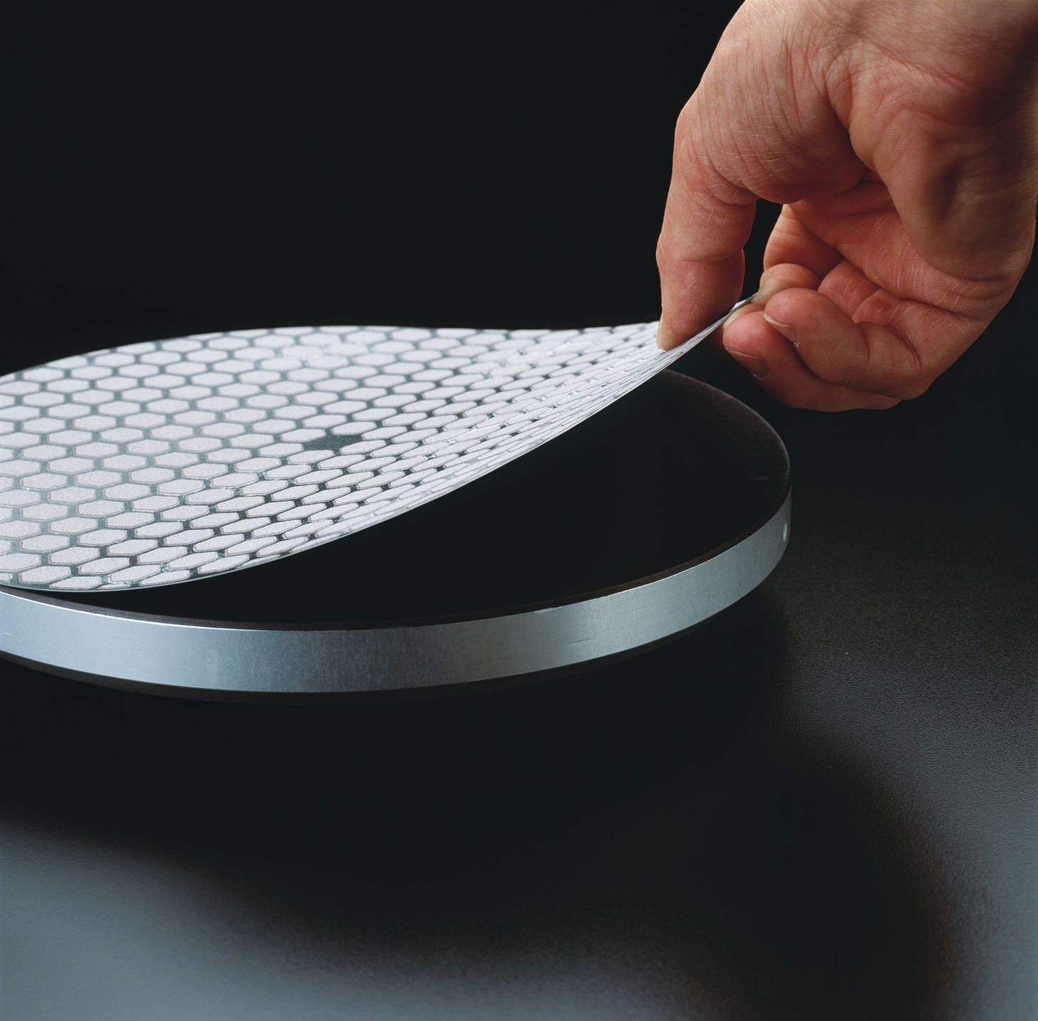 MD-System magnetic disc system for grinding and polishing